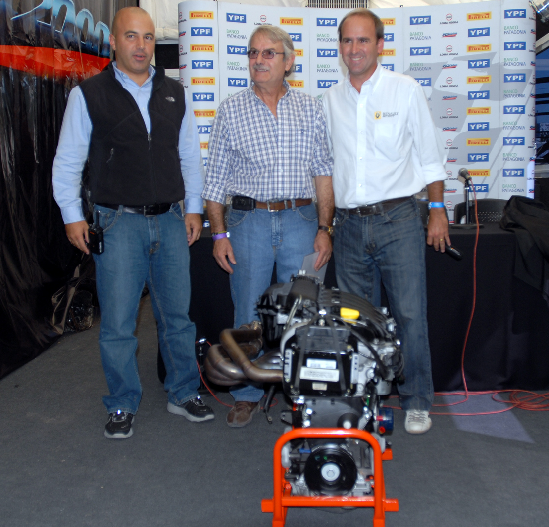 Pablo Peón, Hugo Bini and Juan Pablo Mackintosh introducing the Renault F4-A engine